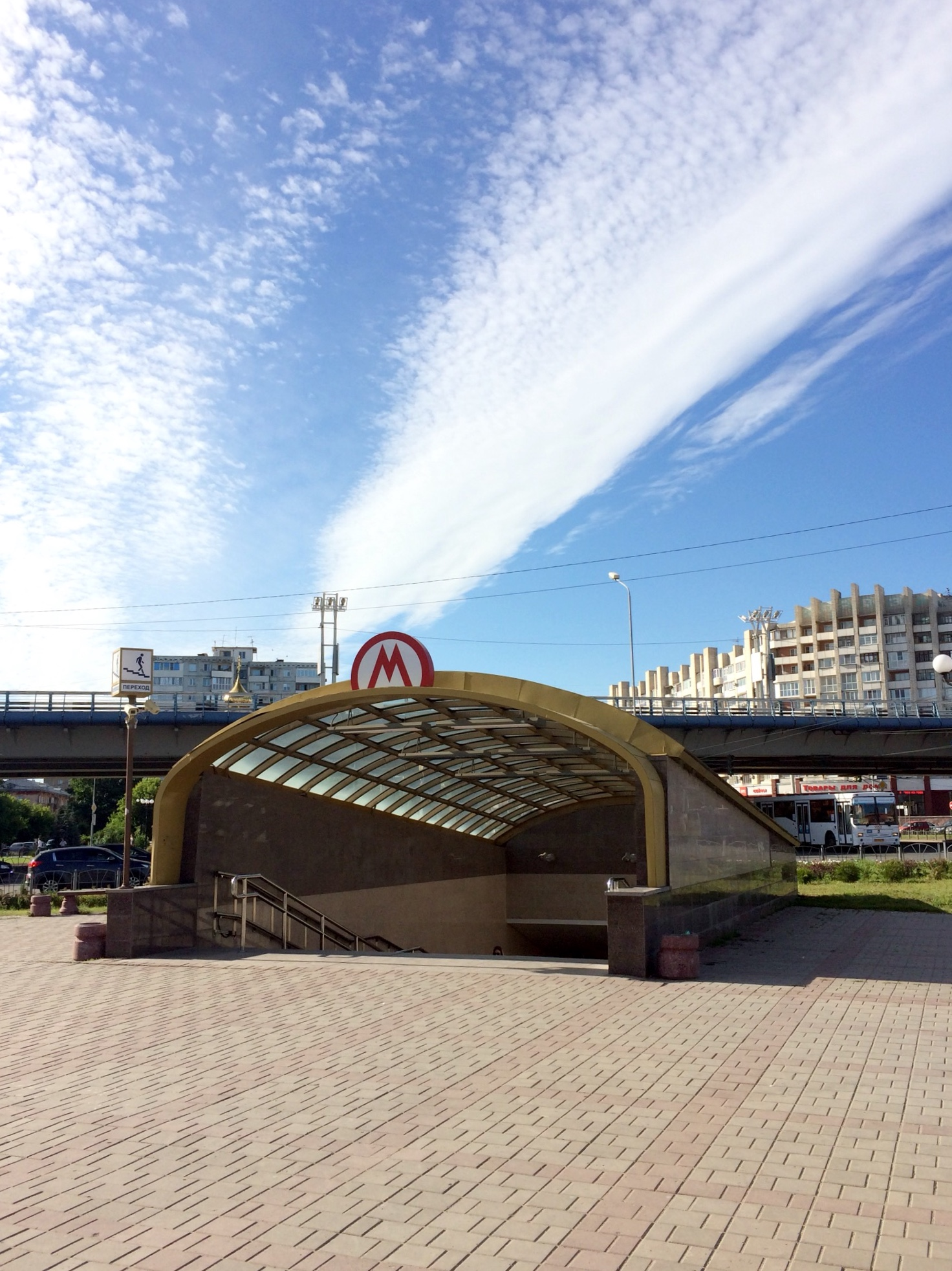 Enter of “Biblioteka Imeni Pushkina” station of cancelled Omsk Metro; station probably serves as a pedestrian subway only.